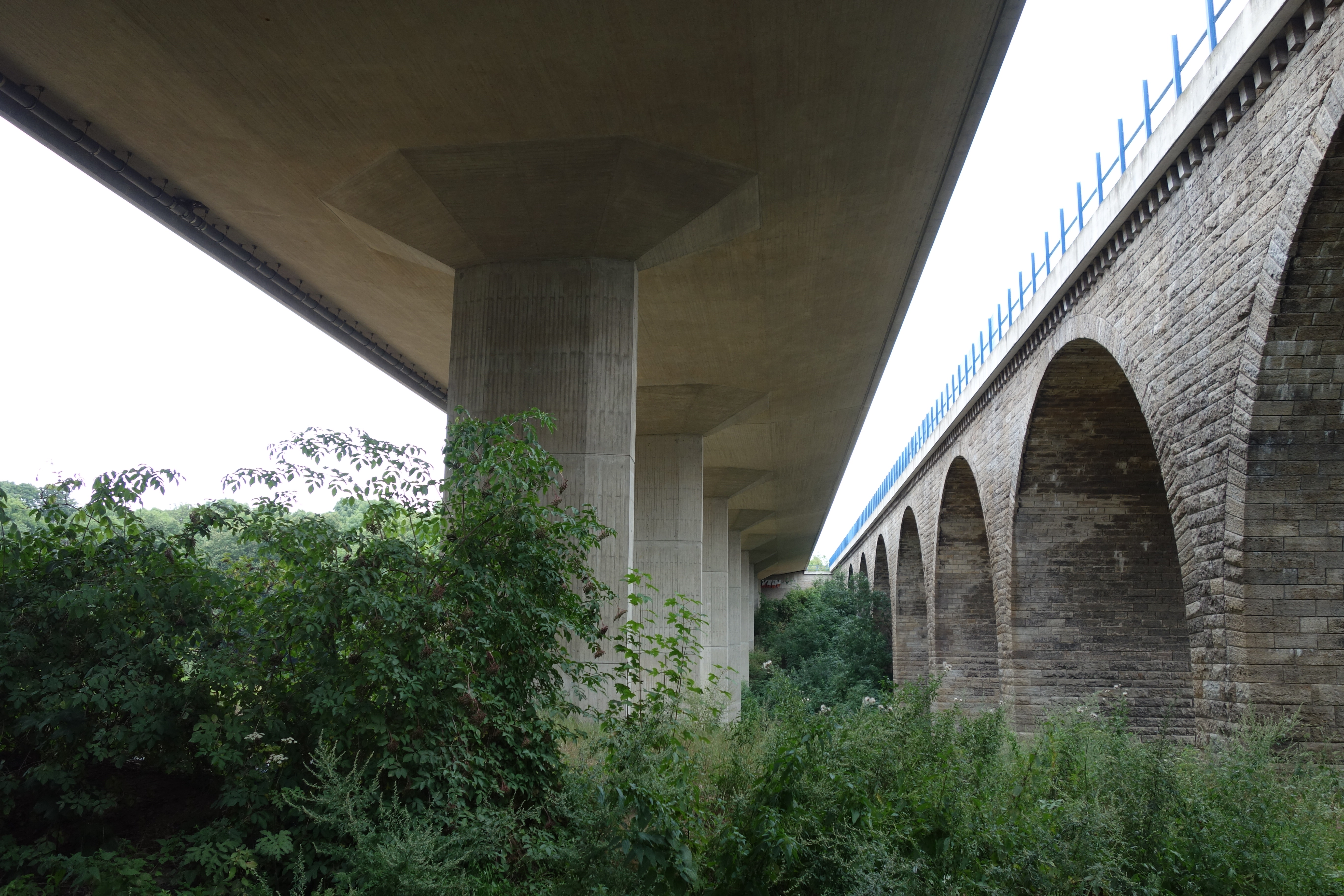 Talbrücke Exter